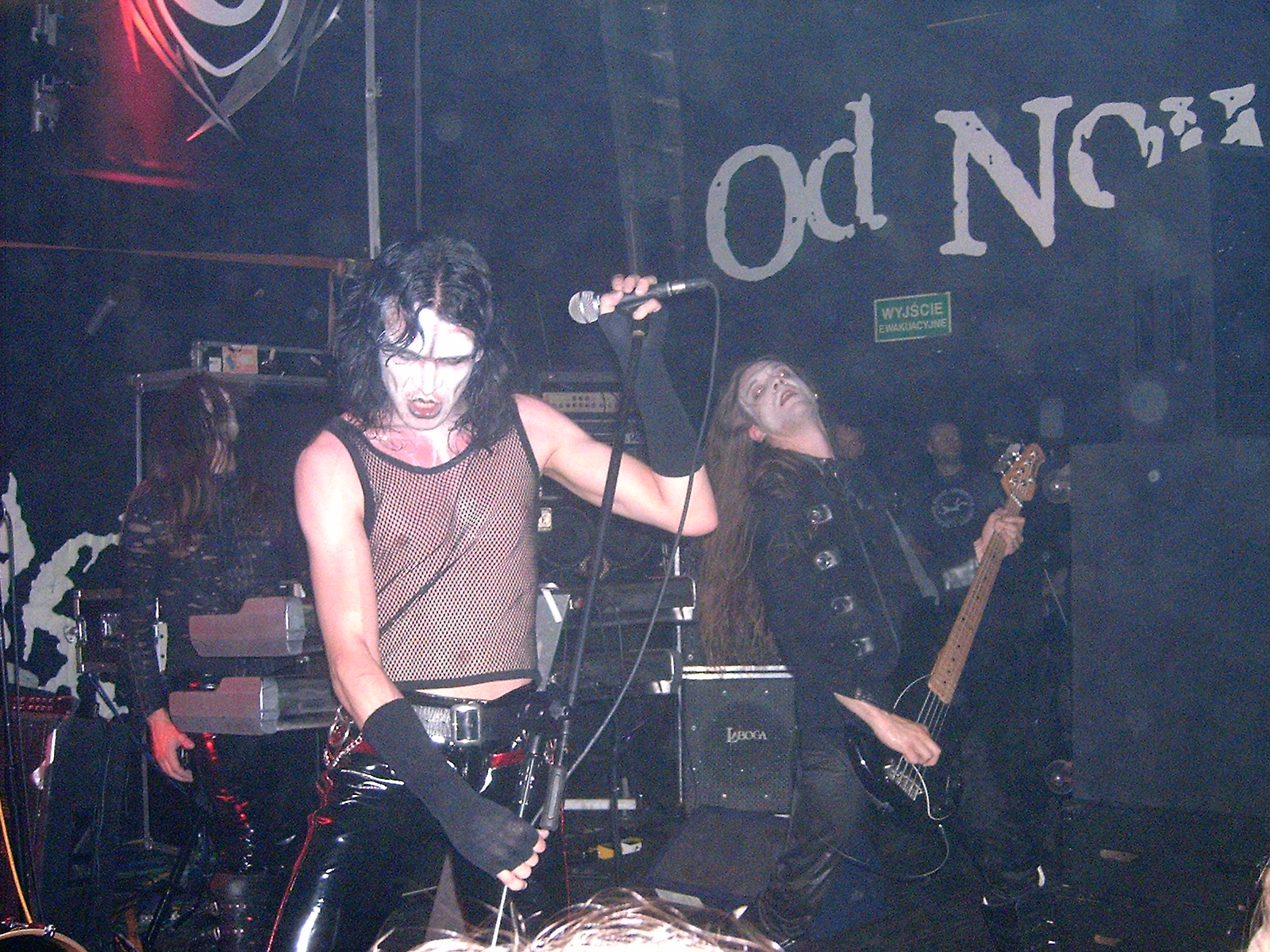 Anorexia Nervosa a French symphonic black metal band playing live on tour with Vader in Poland